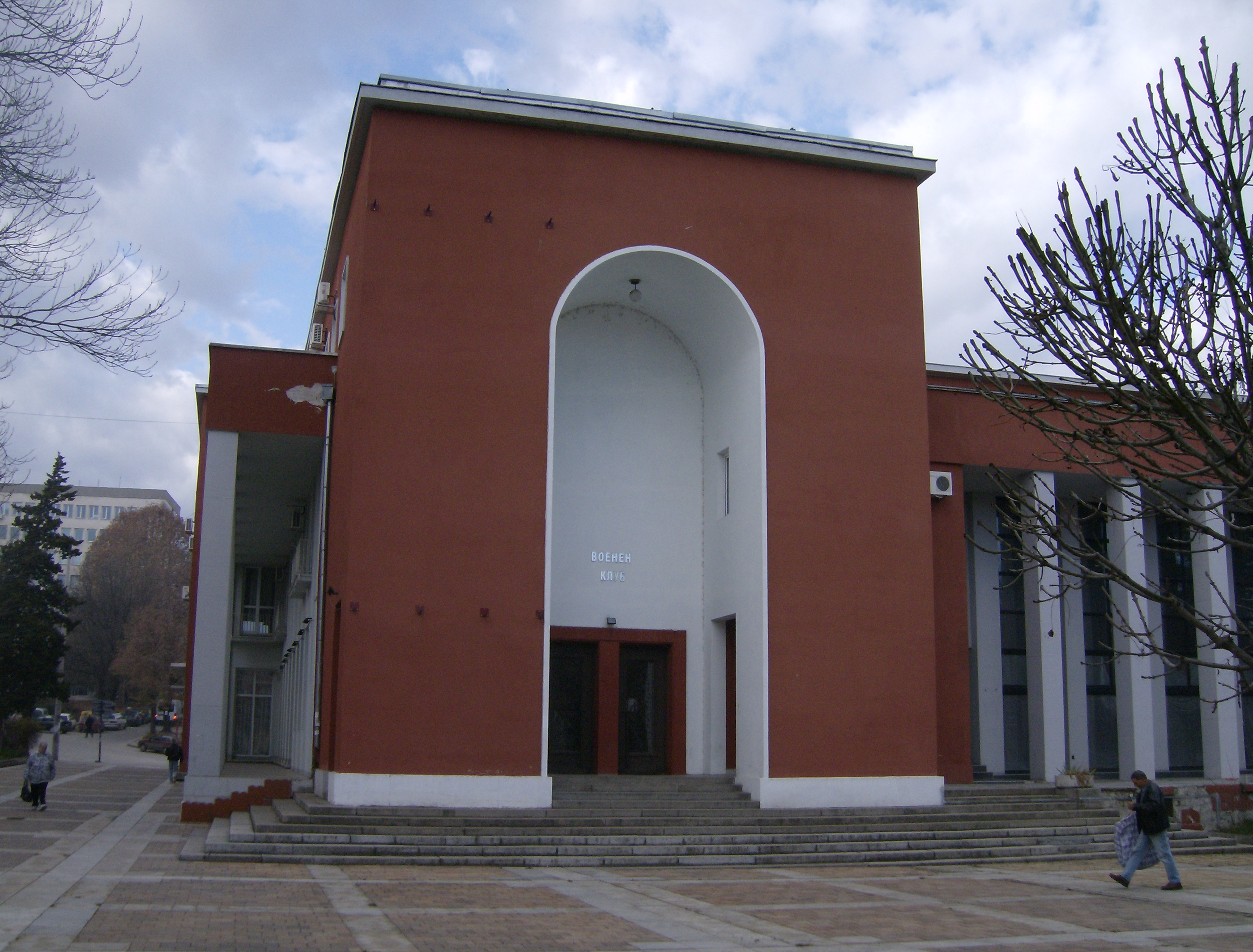 Voenen klub, Pleven